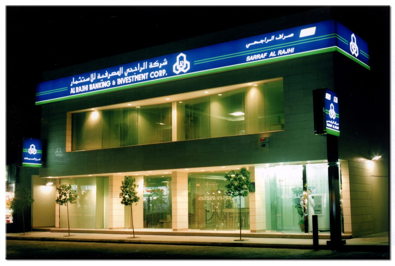 A picture of Al Rajhi bank back in 1996